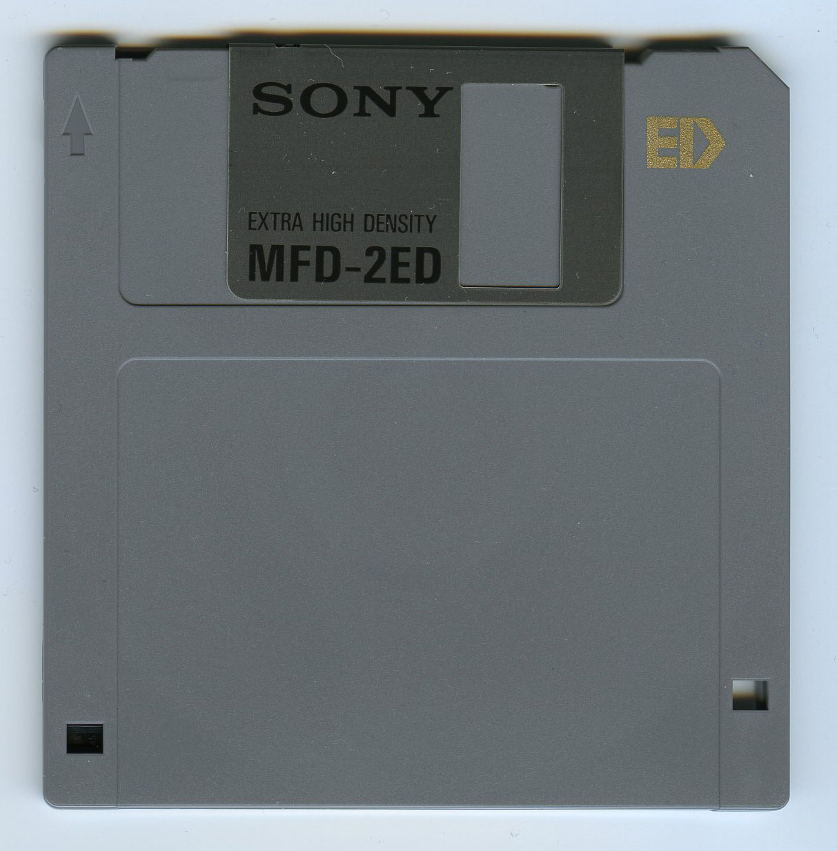 Floppy disk 3.5 Extra Density